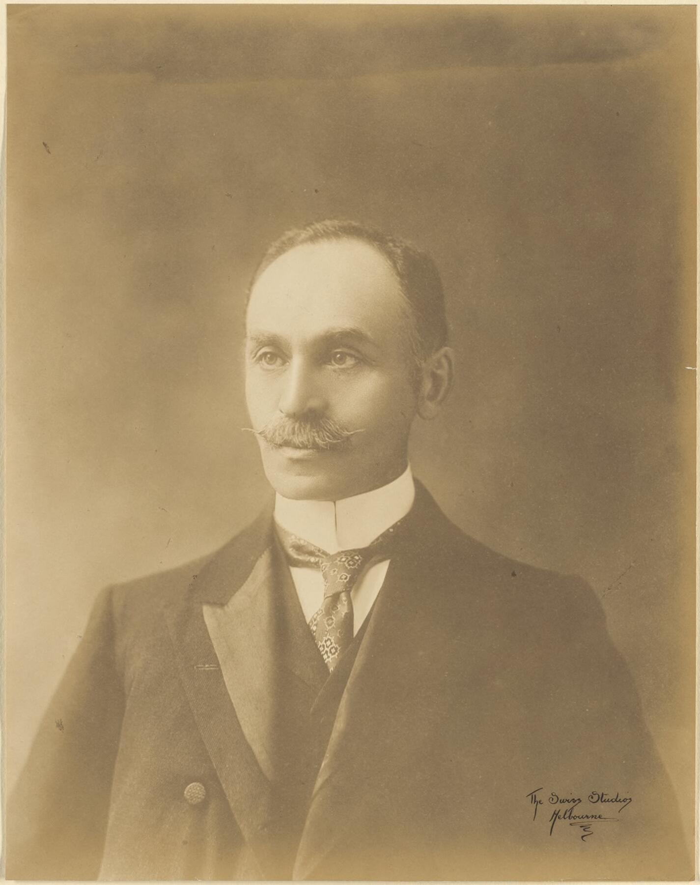 A black and white portrait of Isaac Isaacs during the 1900s